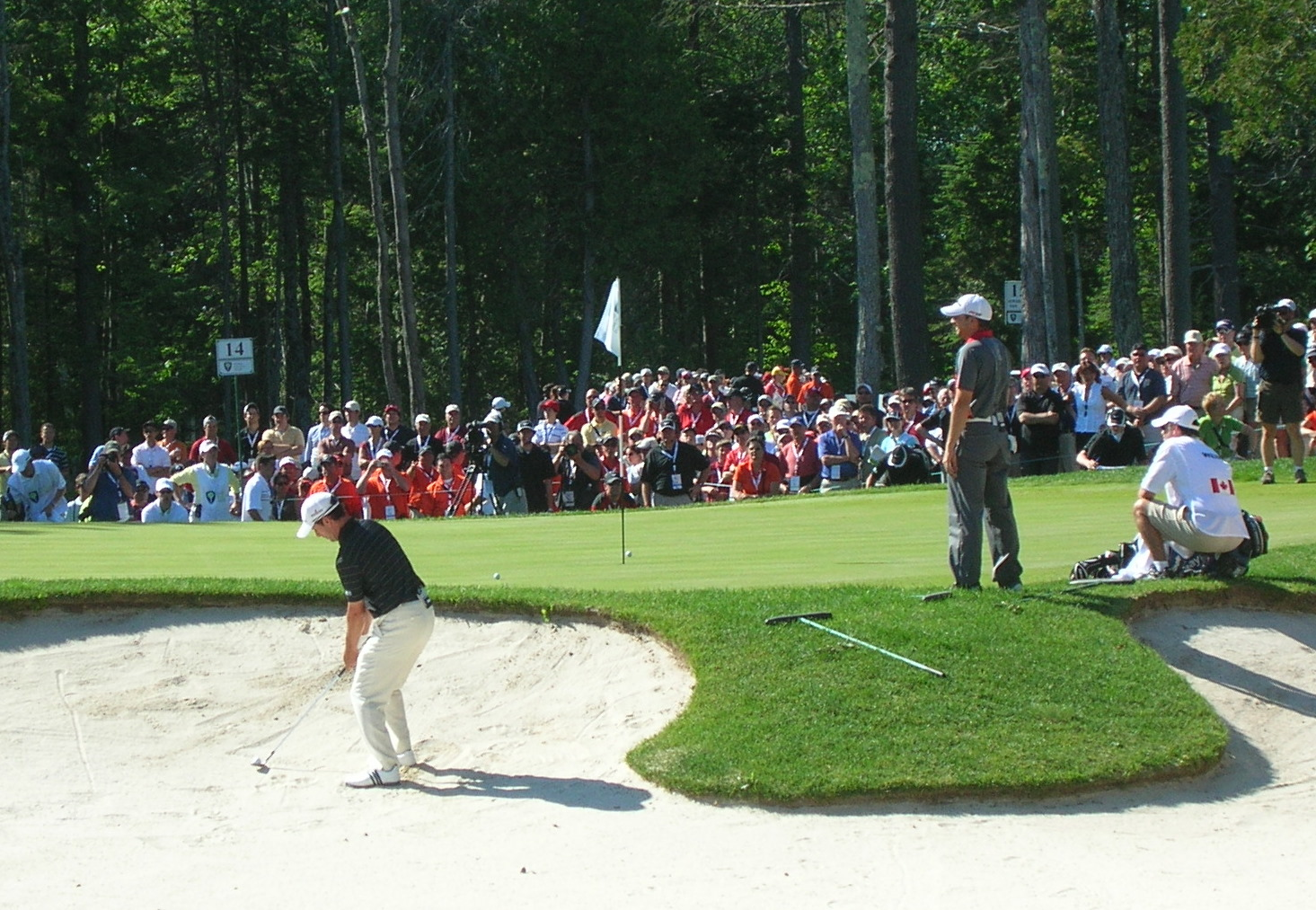 Mike Weir at Telus World Skins Game, La Tempête Golf Club, Lévis, province of Quebec, Canada